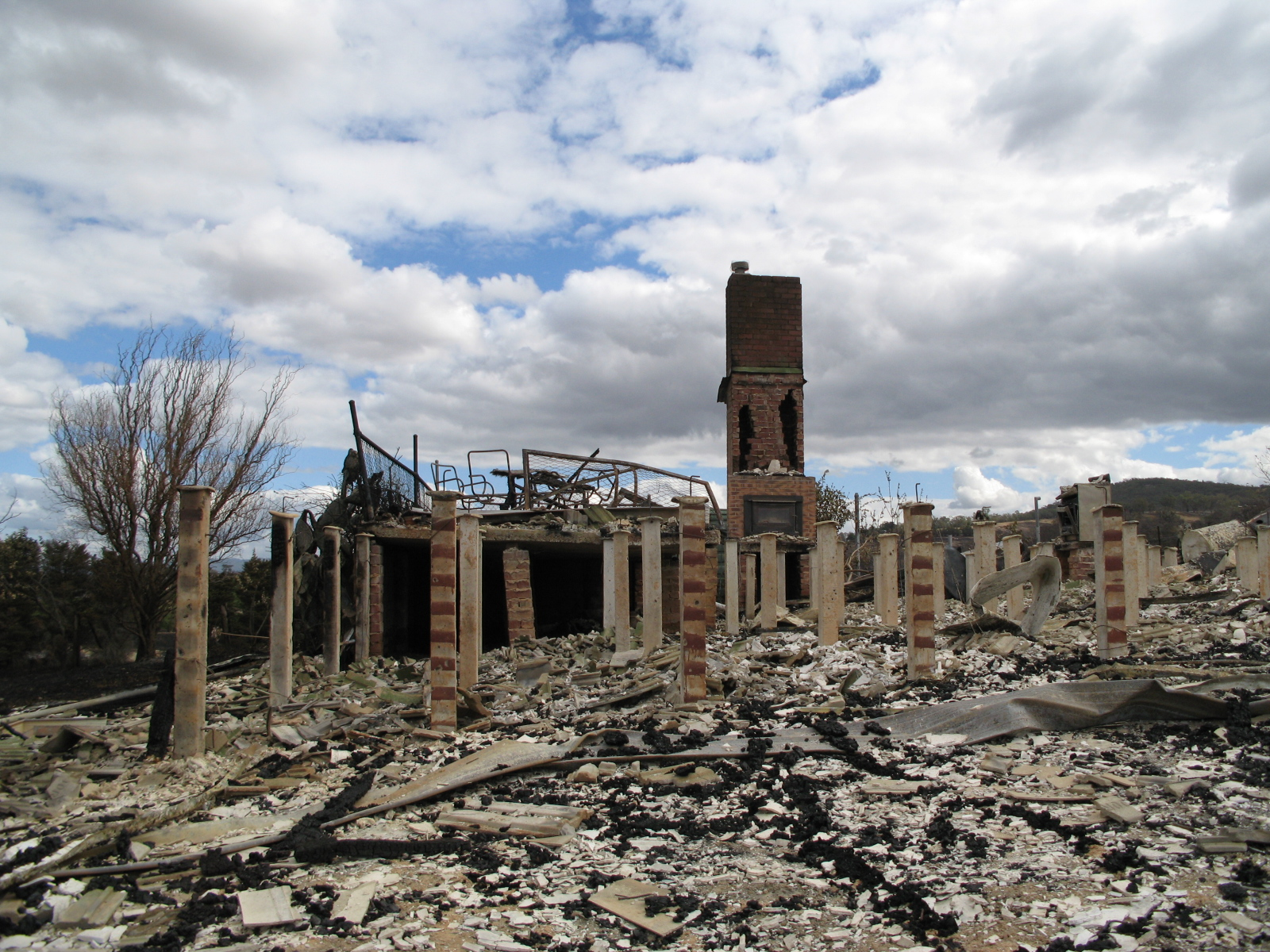 A house damaged by bushfires in the Kinglake complex, in Yarra Glen. Photo taken by myself with verbal permission of the owner, February 10 2009.